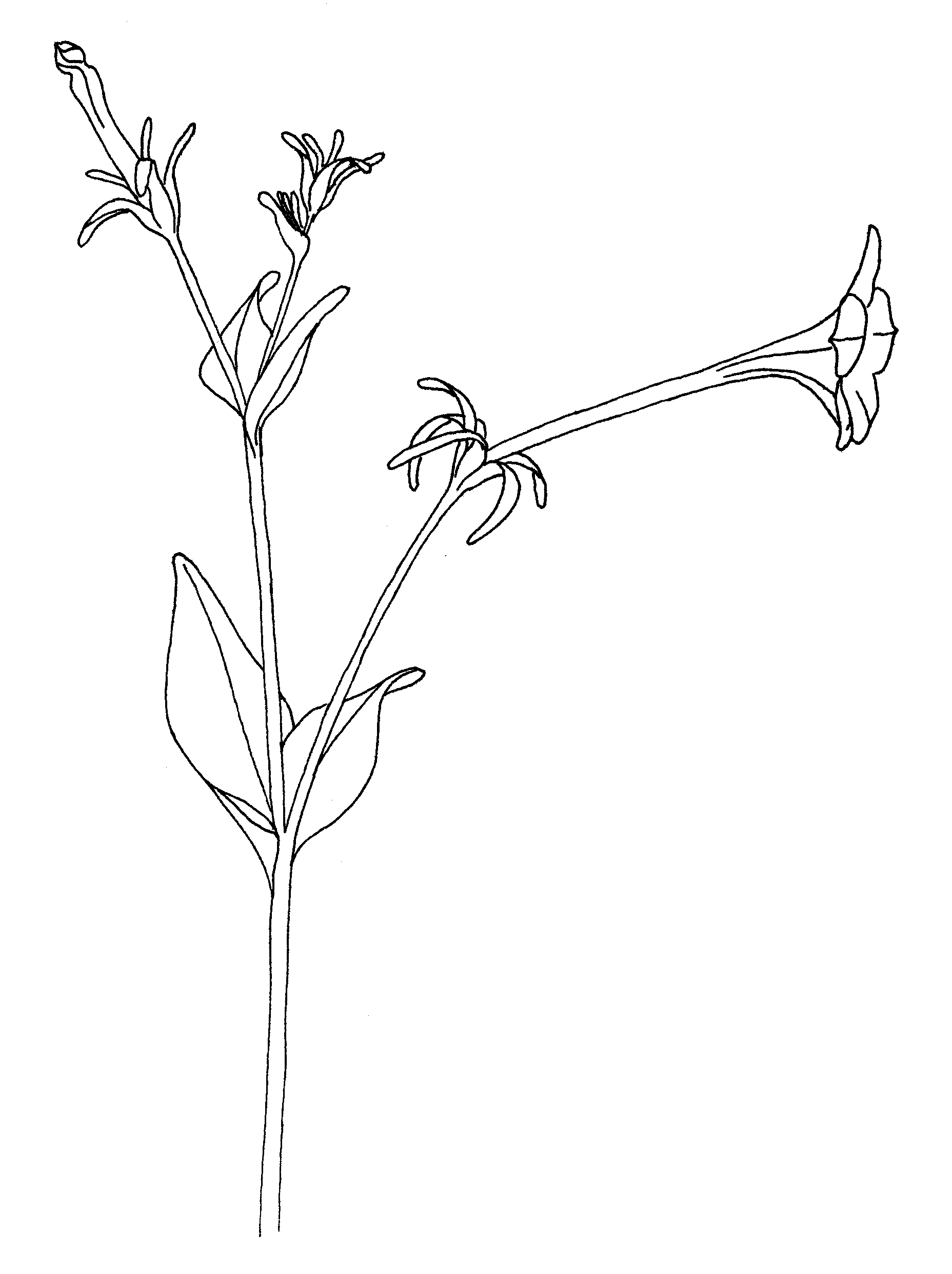 Petunia parodii, Genetical Institute, University of Amsterdam, February 9, 1977 Pen drawing on paper by Elly Waterman Pentekening op papier door Elly Waterman